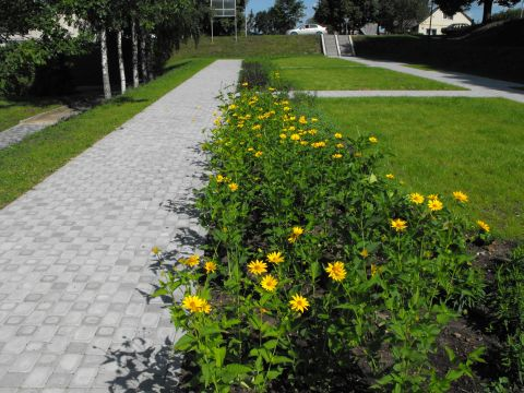 Garden in Utena City — Lithuania.